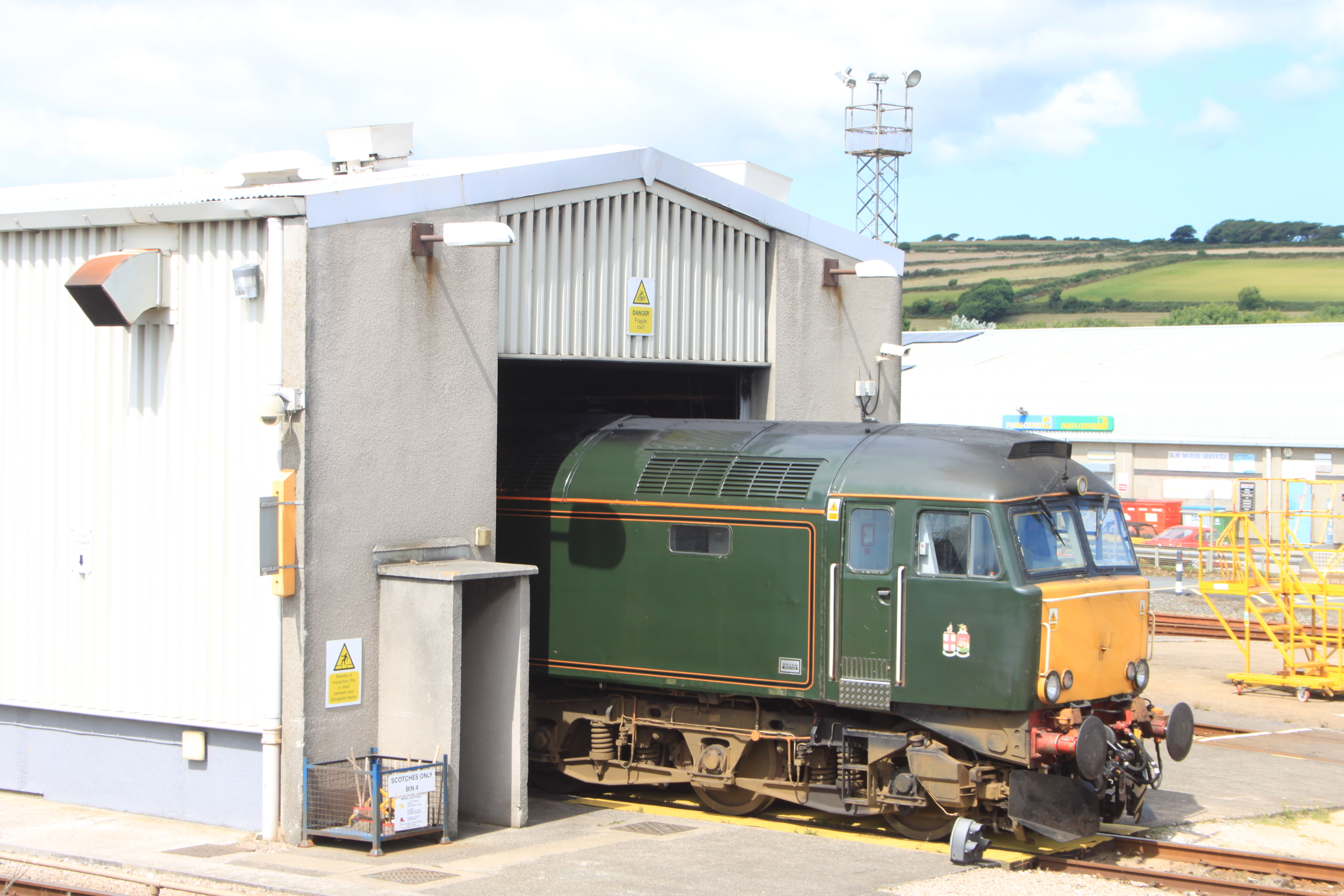 Great Western Railway's heritage-liveried 57604 Pendennis Castle in the depot at Penzance.